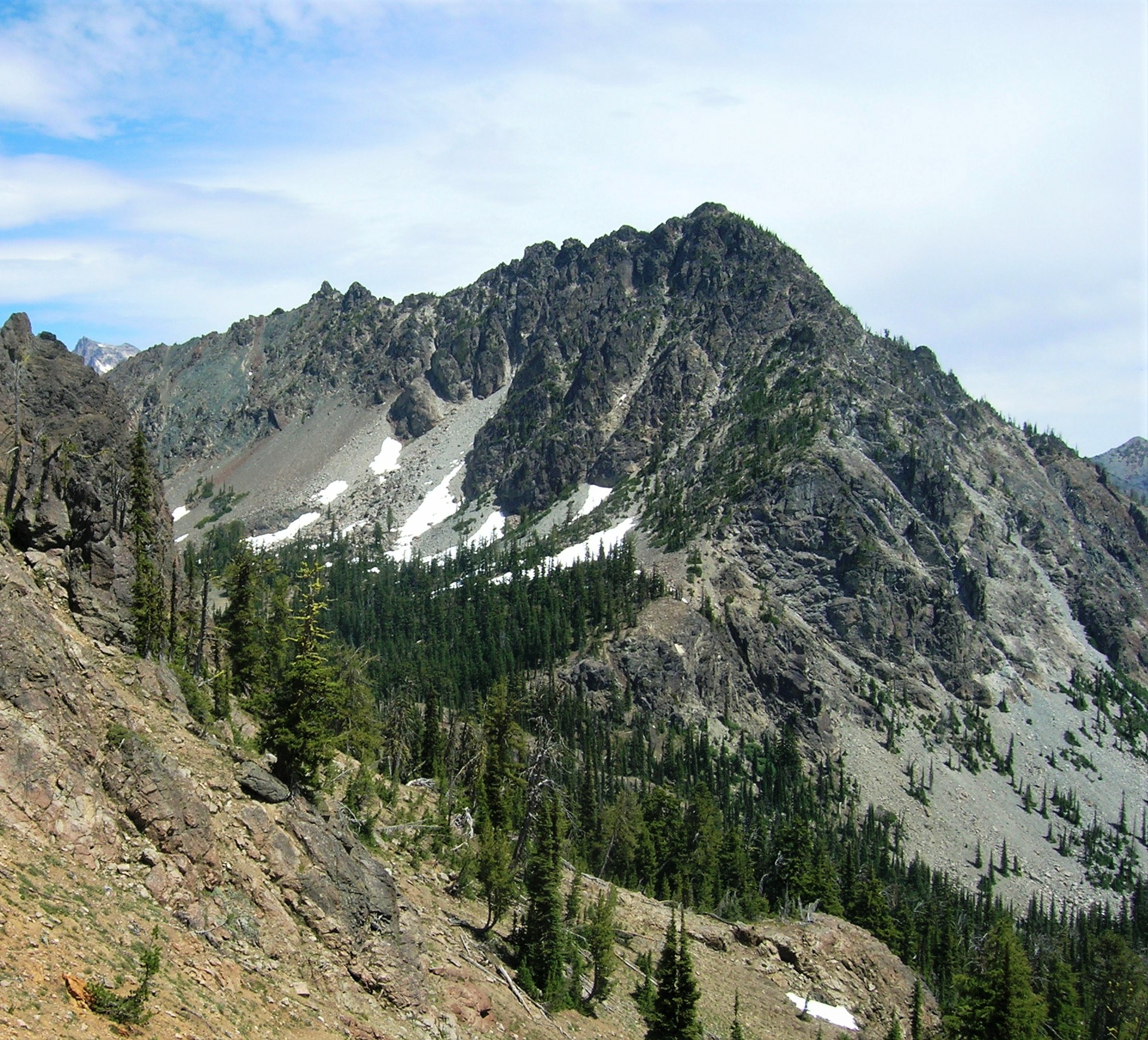 Bills Peak, 6,917', west aspect, from Iron Peak Trail 1399, Kittitas Co. Washington, USA